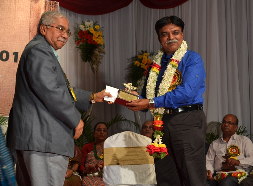 Ayesha Era Natarasan Award (Book : Vignana Vikramathithan published by Books for Children print of Bharathi Puthakalayam) recieved Bala Sahidya Puraskar from Sahitya Akademi Vice president chandrasekhara kambara at Bangalore on 11-November-2014.